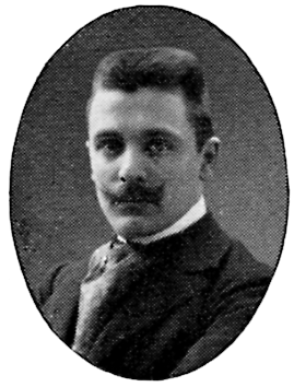 Image scanned from the book "Svenskt Porträttgalleri XX - Arkitekter, Bildhuggare, Målare m.fl. " ("Swedish Portrait Gallery XX - Architects, Sculptors, Painters, ") published 1901